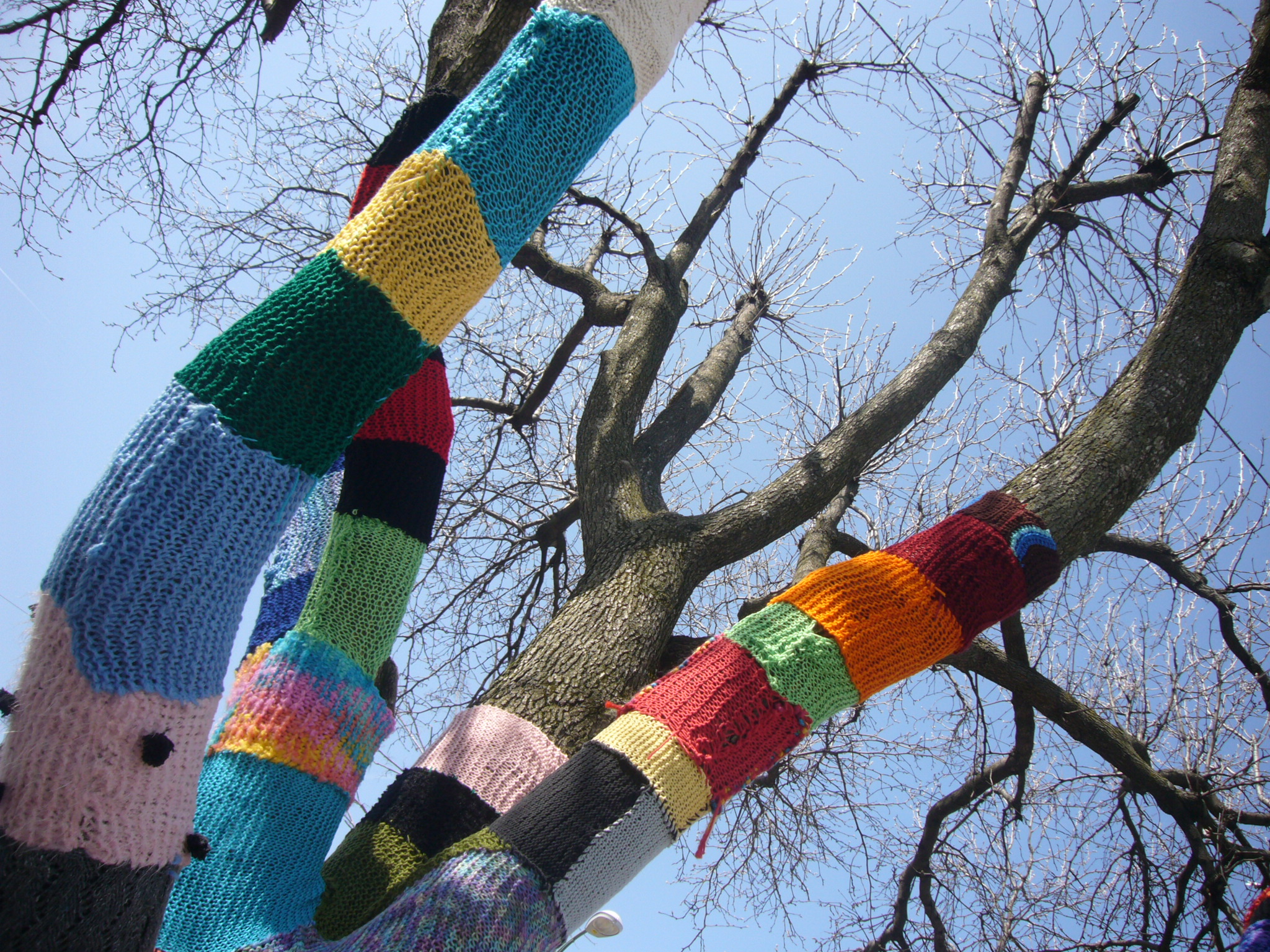 A display in Yellow Springs, Ohio, thanking trees for helping humanity.